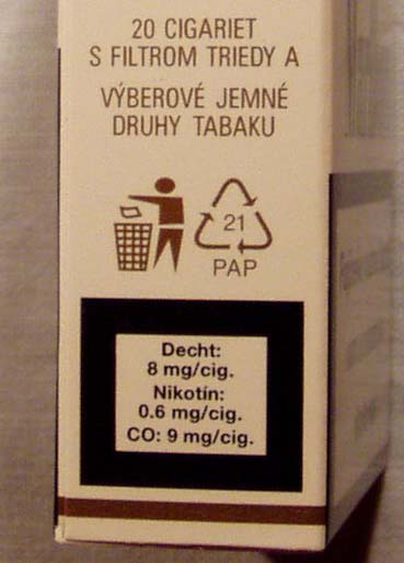 Toxins in light cigarette